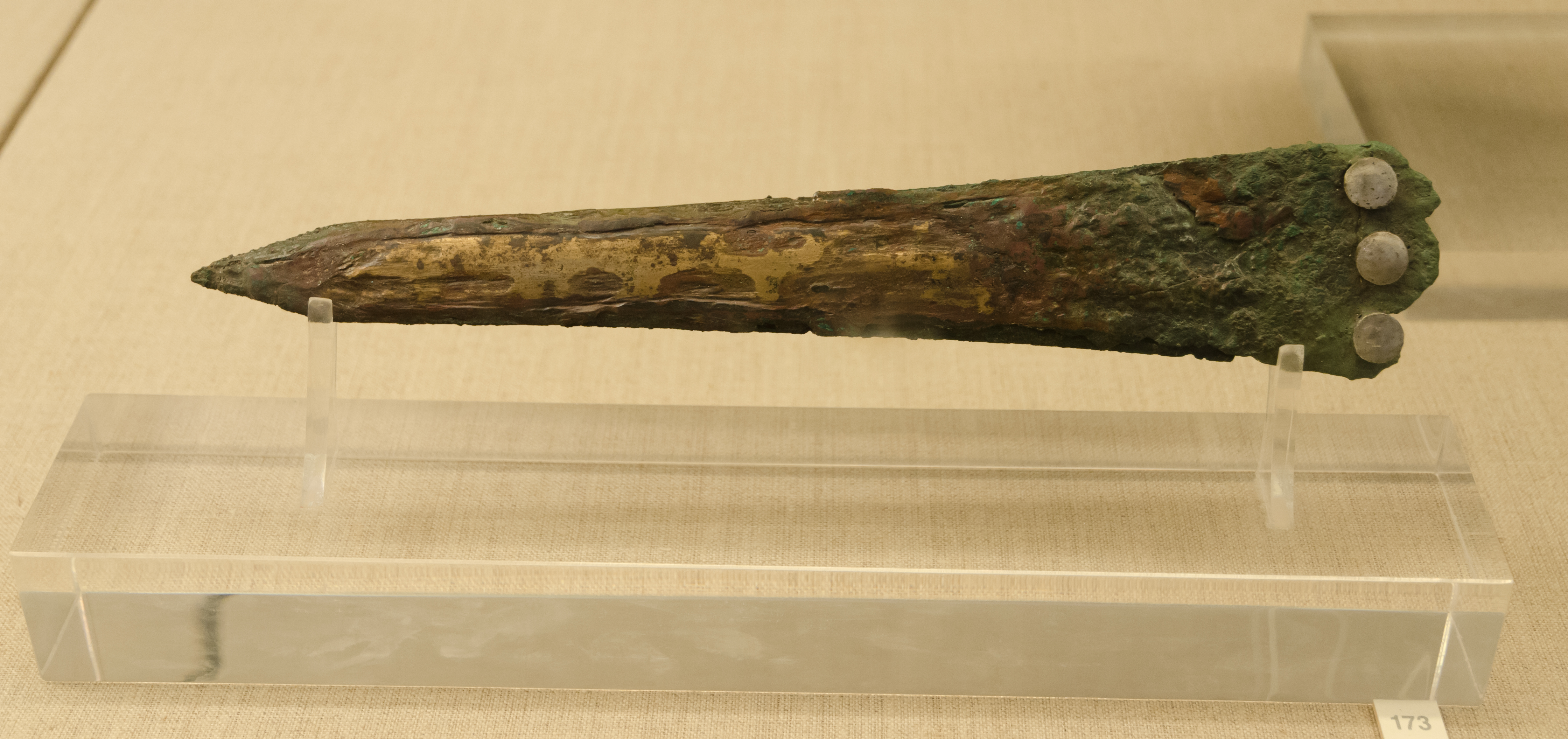 Bronze dagger from the Archaeological site of Akrotiri, Museum of Prehistoric Thira, Santorini, Greece.